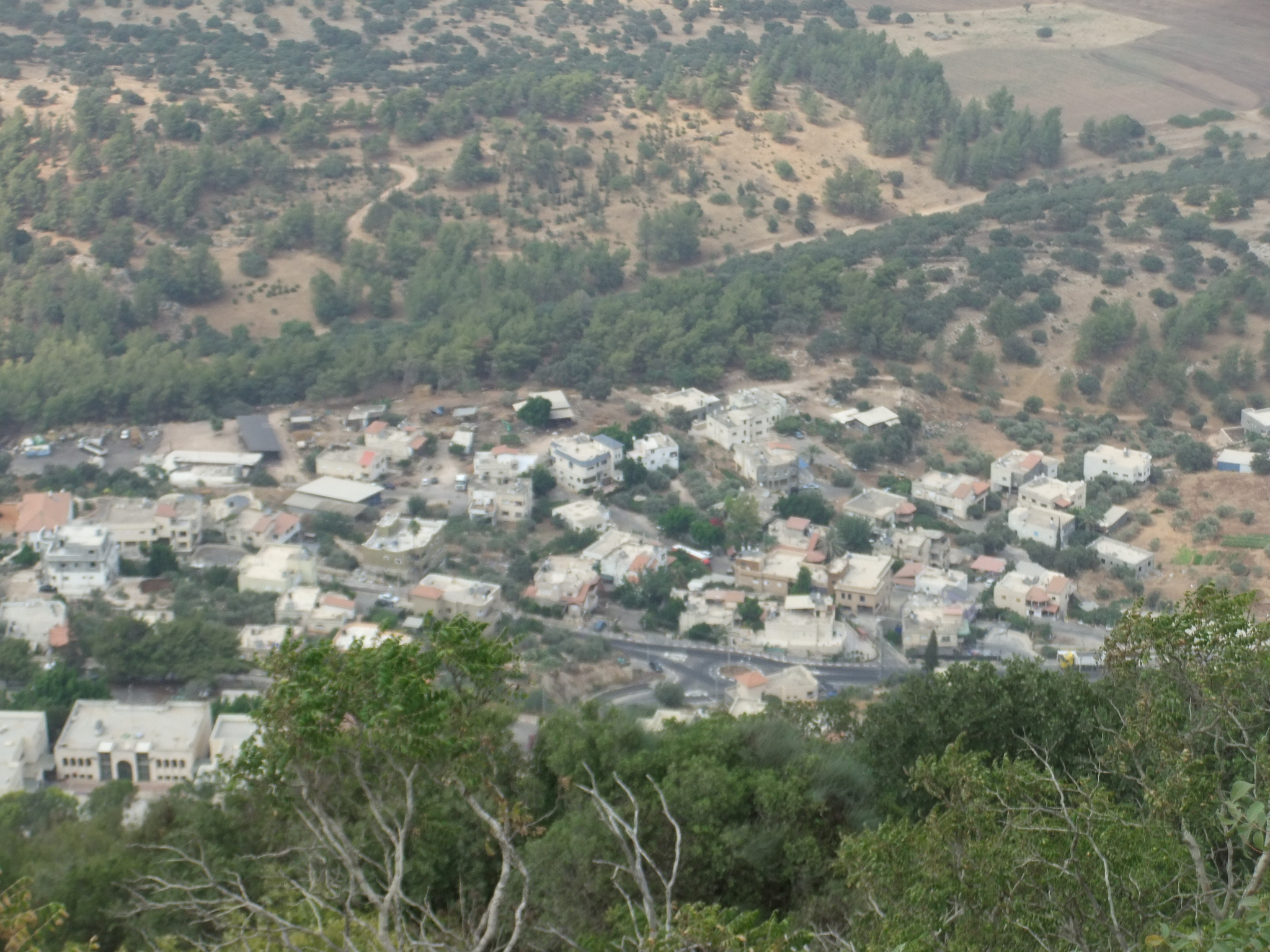 Shibli from mount Tabor